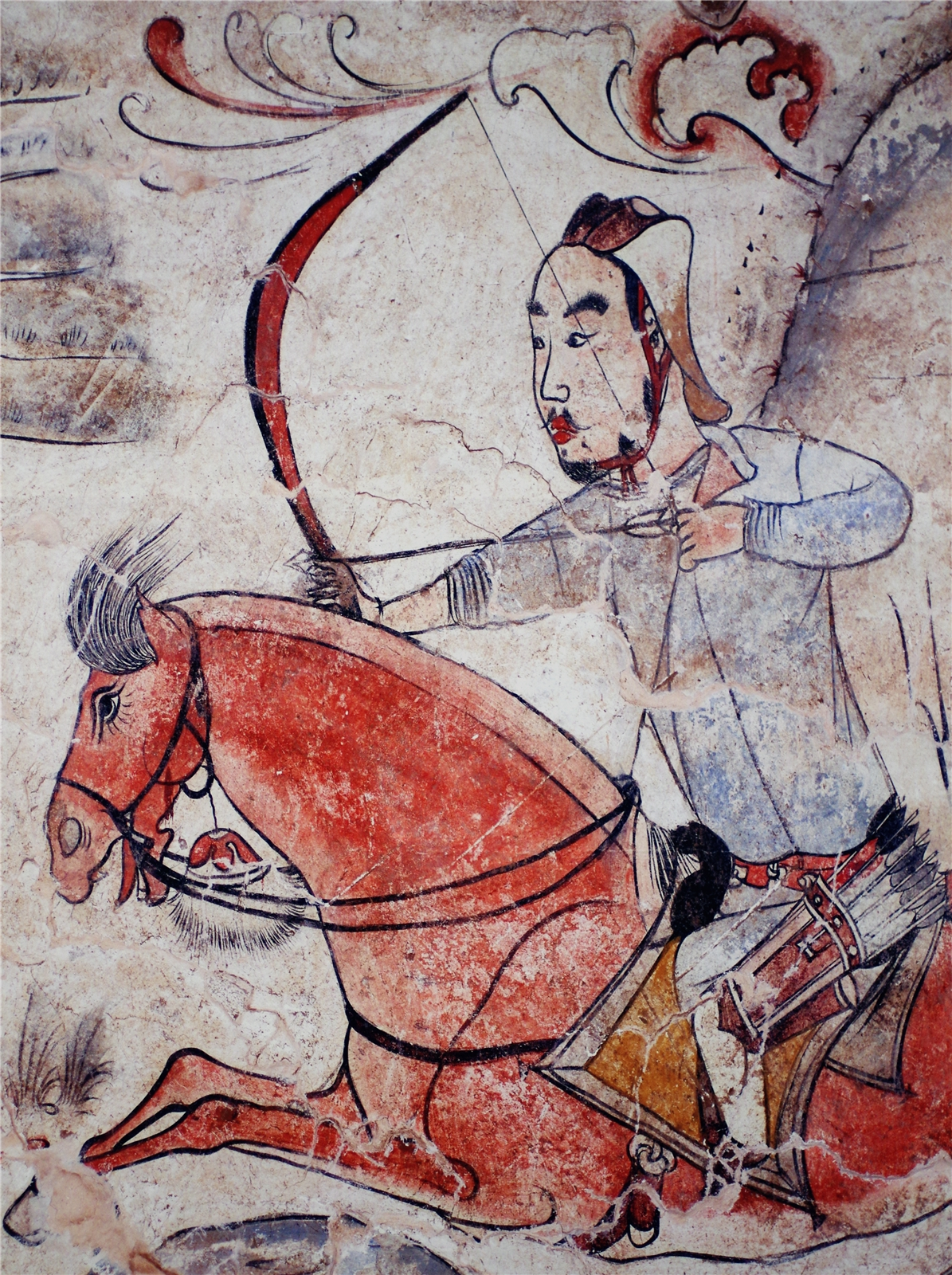 Mural from a tomb of Northern Qi Dynasty in Jiuyuangang, Xinzhou